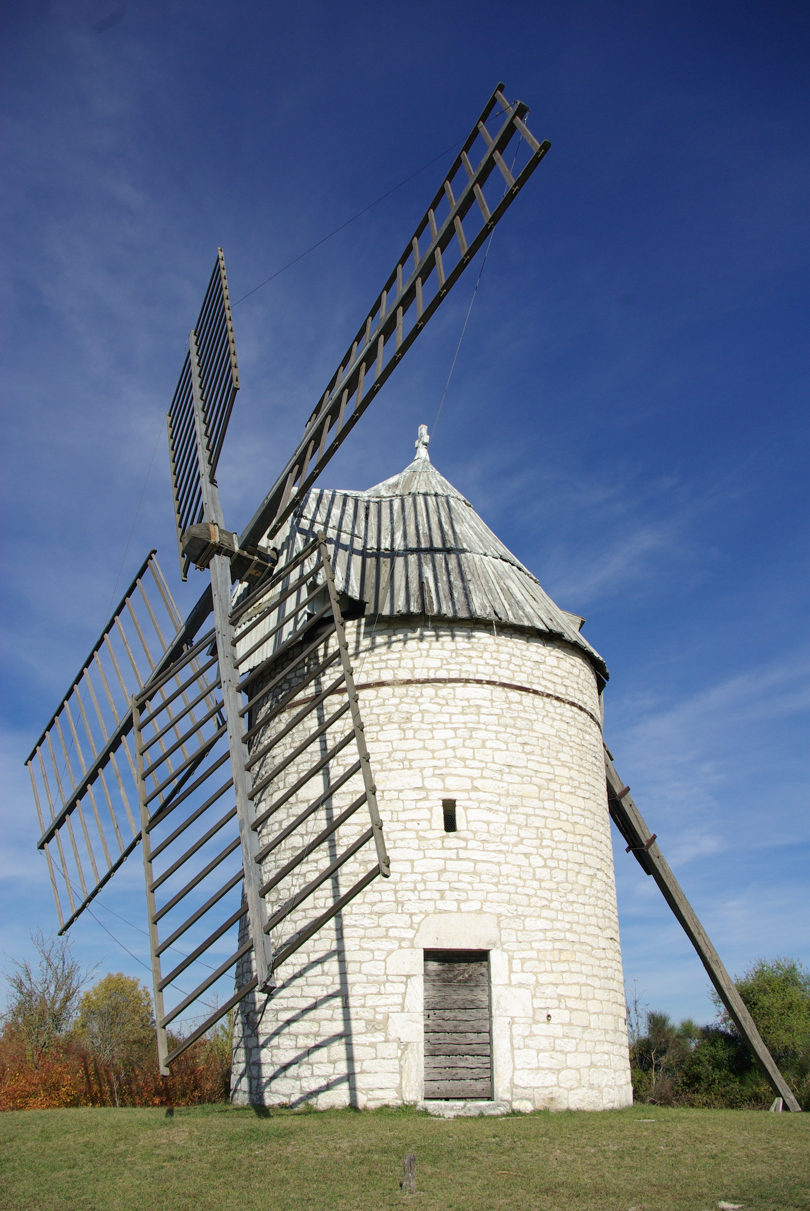 Tower windmill of Boisse (commune of Sainte-Alauzie, Lot, France).